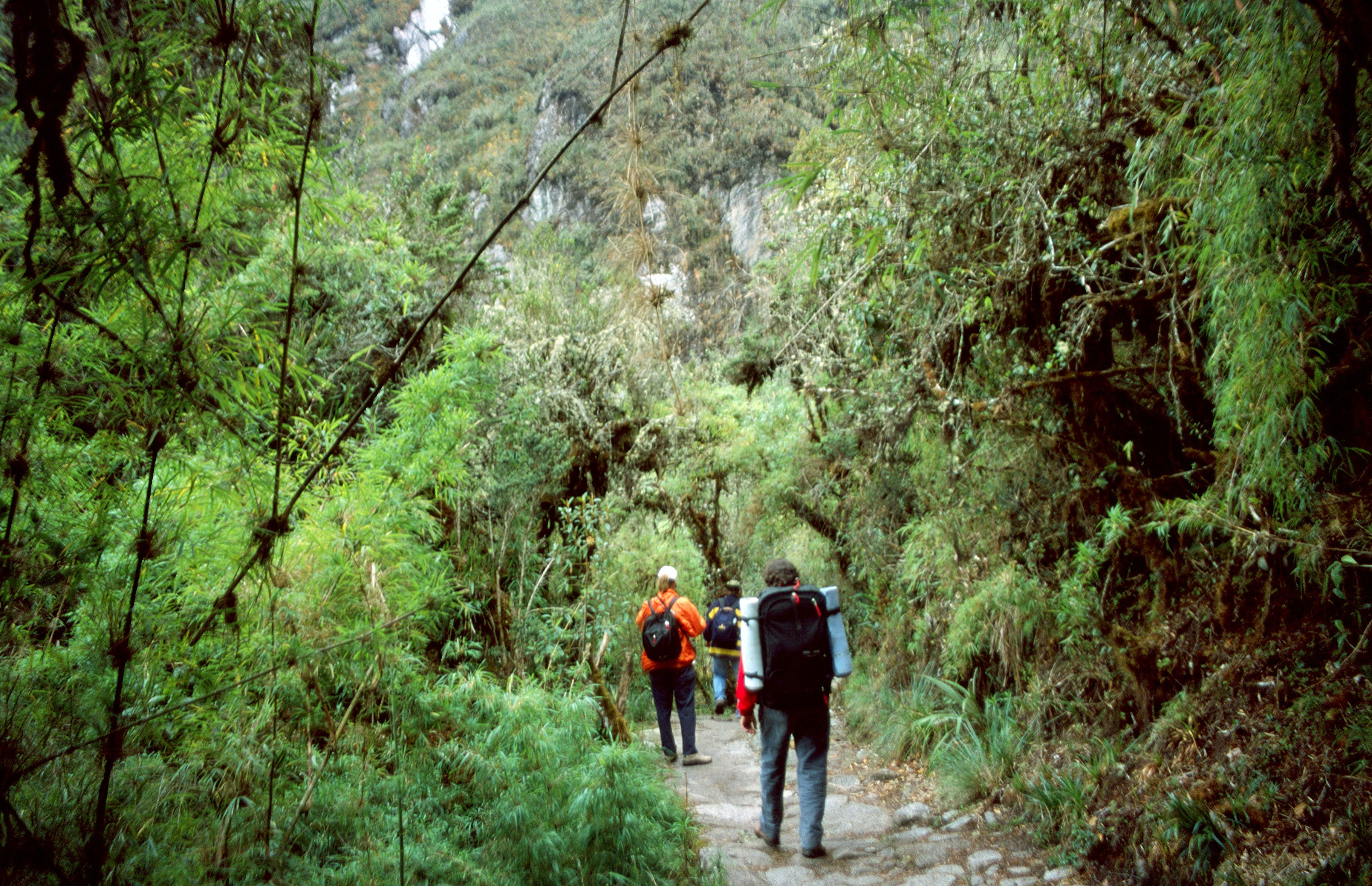 Inca trail from Cusco to Machu Picchu in Perú. Day 3. The road through Amazon rainforest.